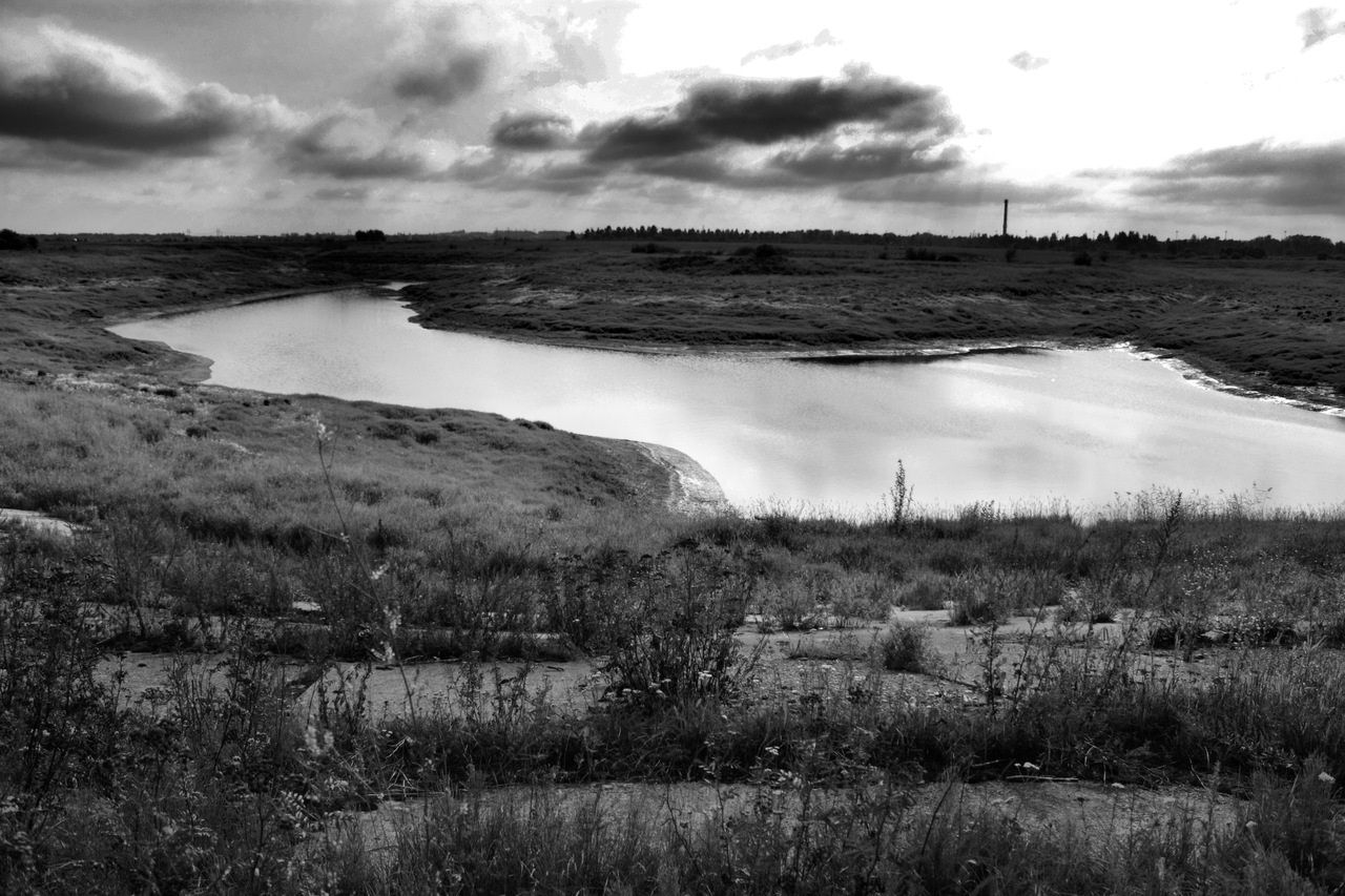 Ingrian river on Pulkovo highlands